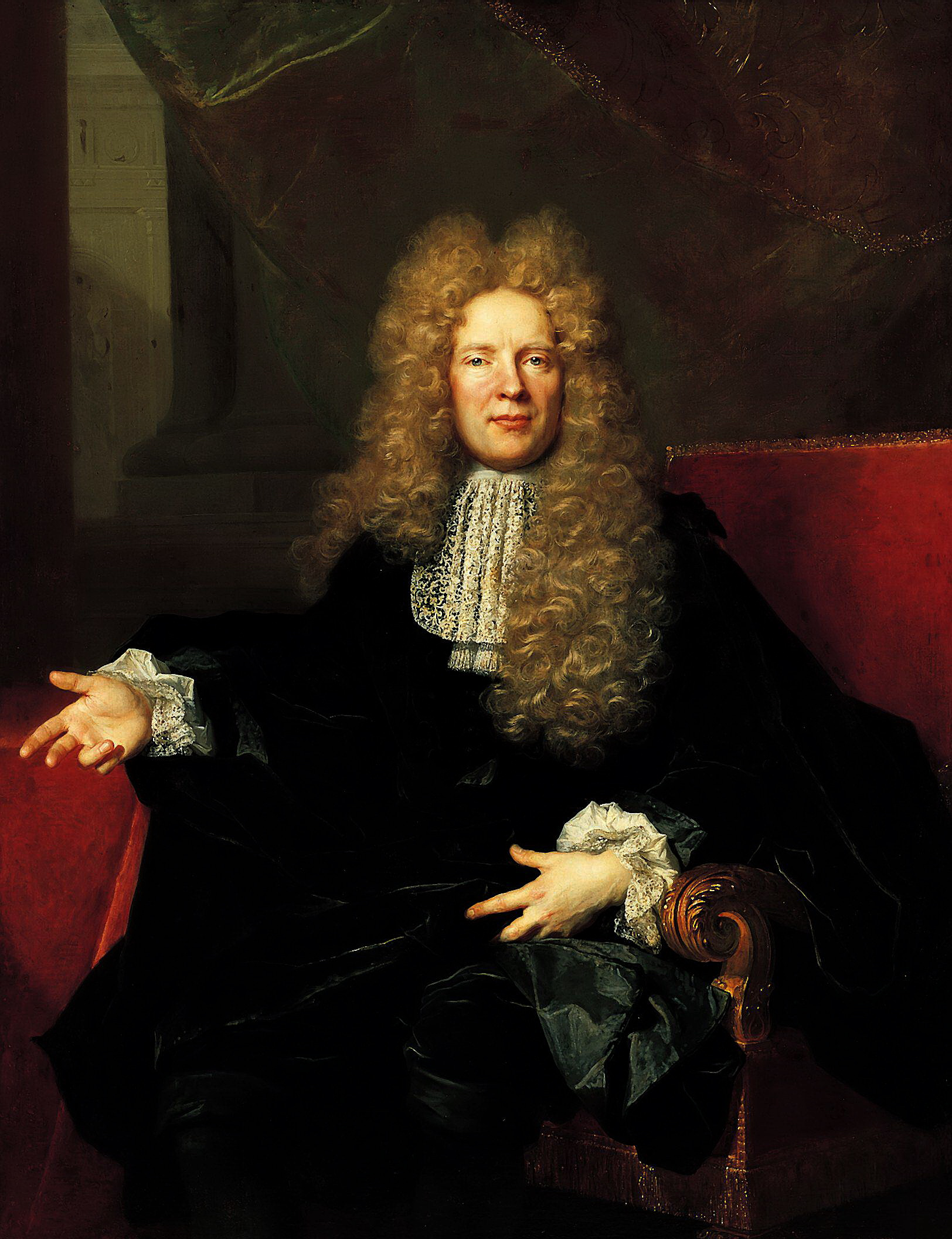 Portrait of Lambert de Vermont (146.1 x 113.7 cm.)